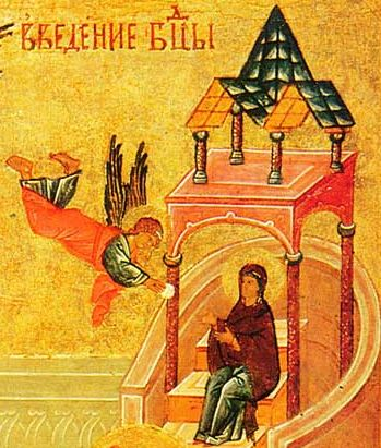 Mary at the Temple of Jerusalem (detail of russian icon Presentation of Virgin Mary)